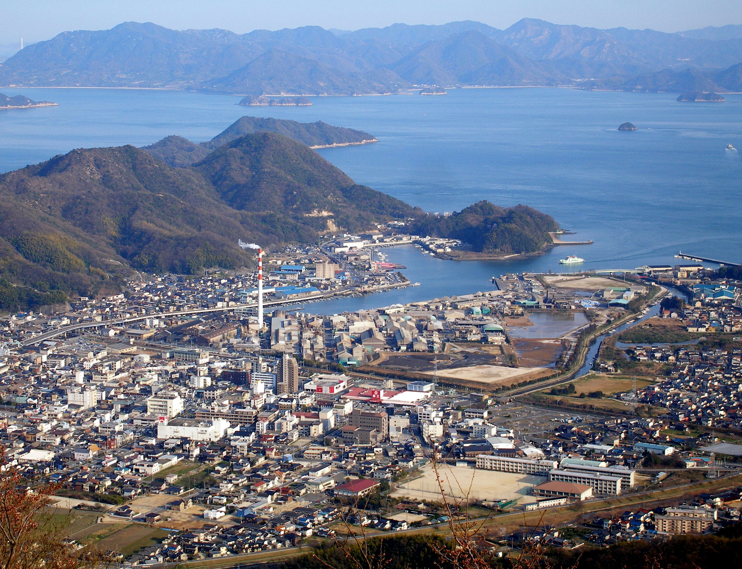 Takehara City as viewed from Mt. Asahi